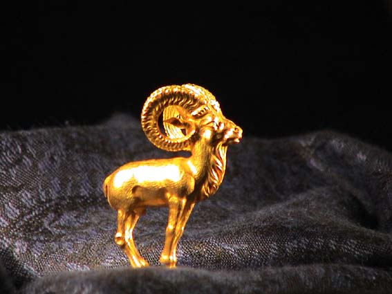 taken by my wife Ana Rodriguez, when Bactrian Gold was first unearthed, and before being shown to the public in Kabul end 2004 after nearly 20 years in the vaults of the National Treasury